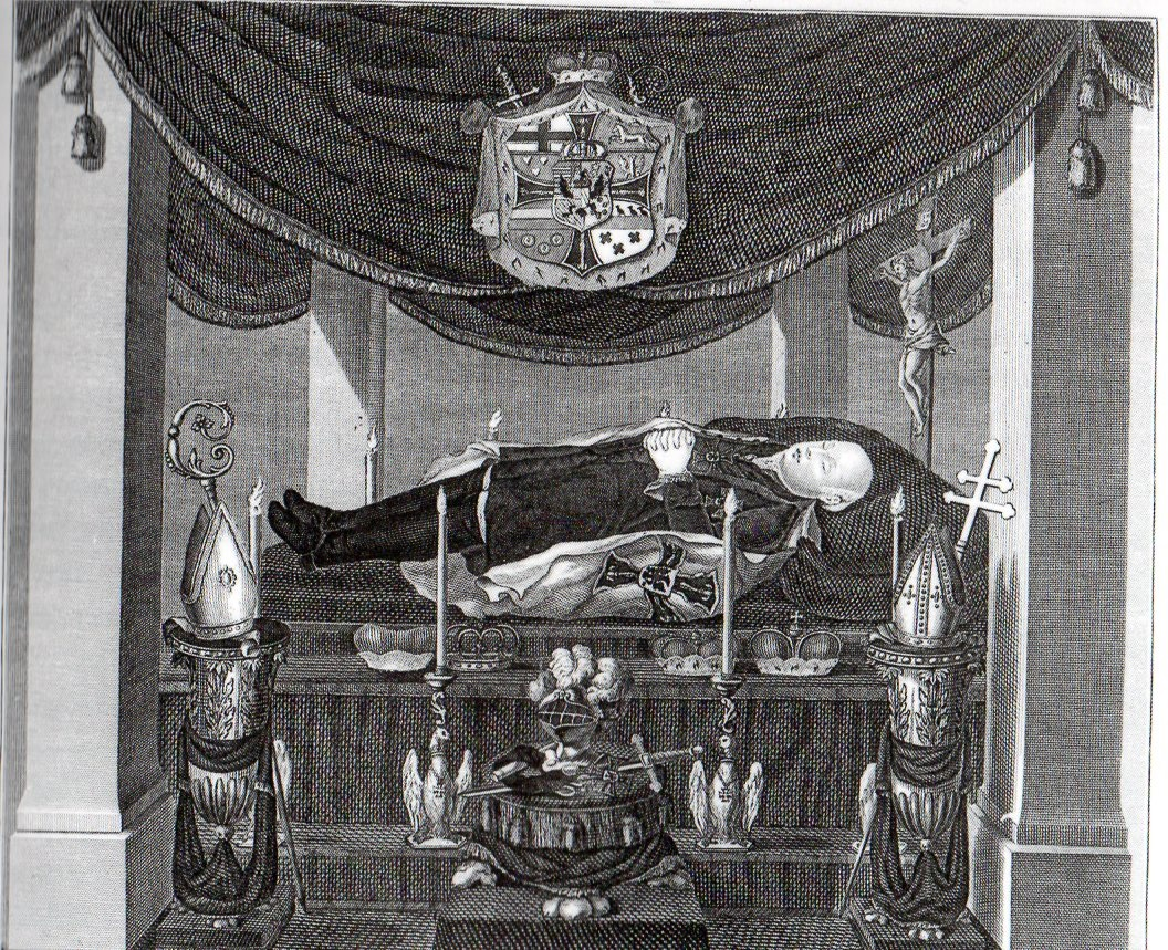 Elector Maximilian Franz (1756-1801) on the catafalque under canopy